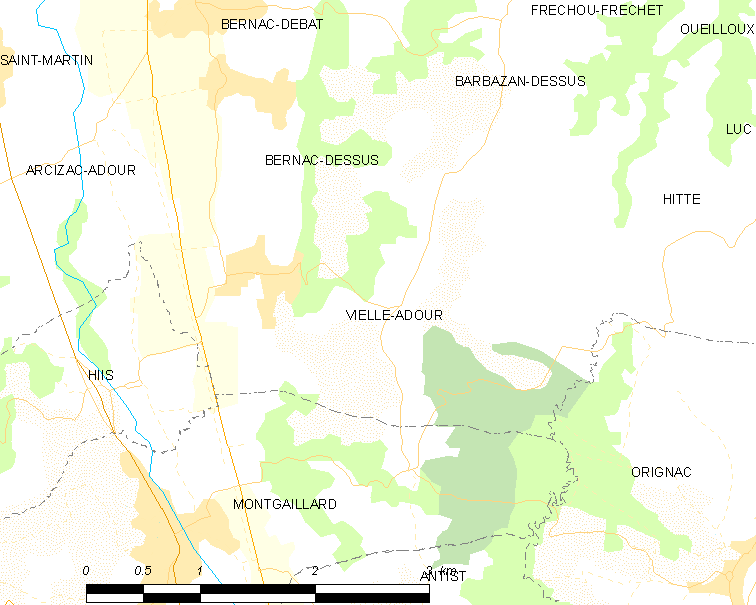 Map of French municipality